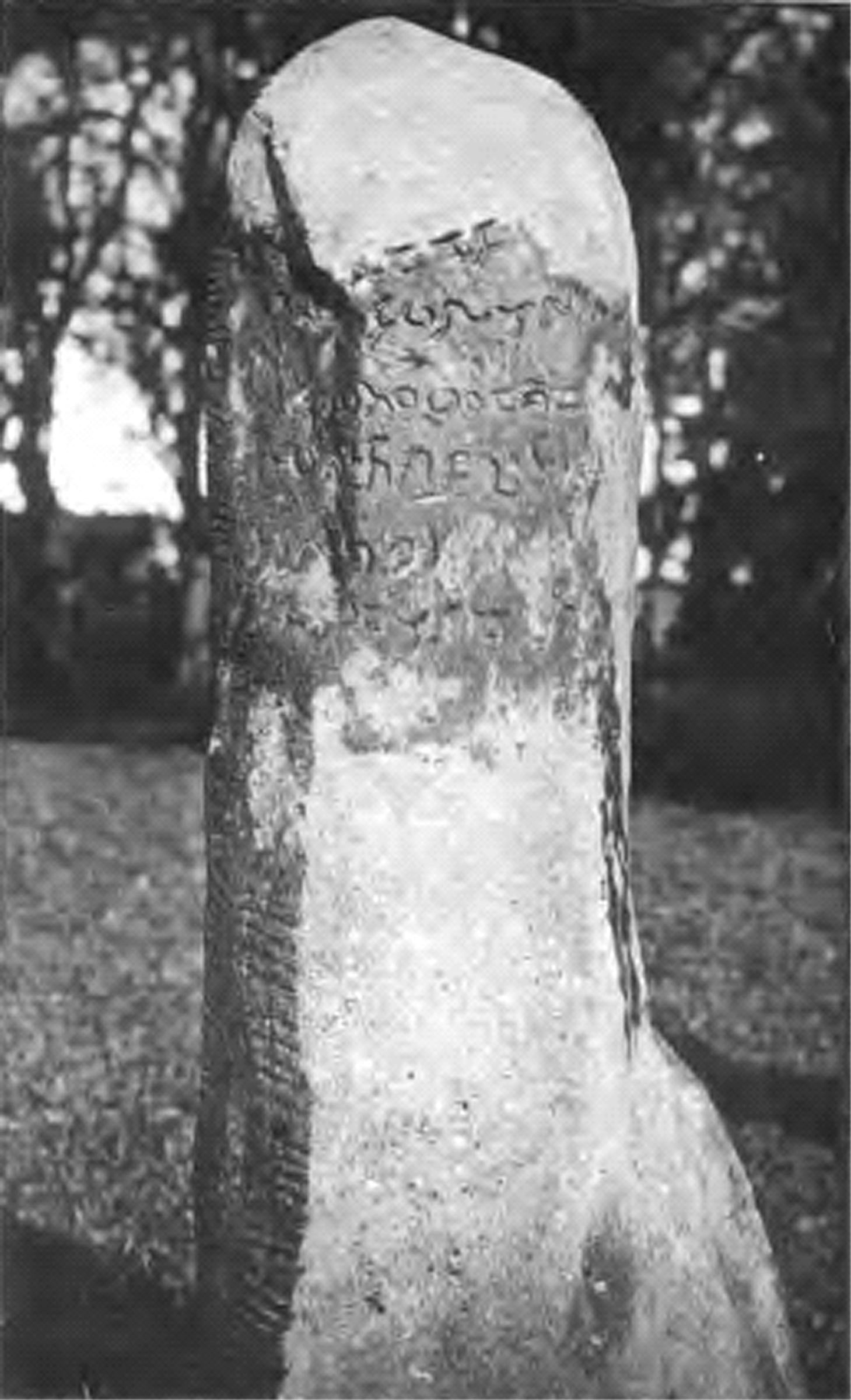 Newton Stone, found in 1804 near Shevock toll-bar. Detailed description of the Newton Stone.